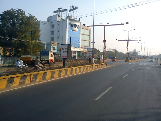 MADURAI KK ROAD TOWARDS MIBT